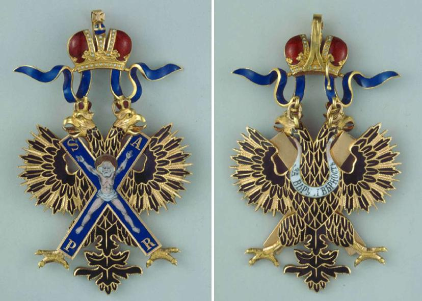 Jewel of the Russian Order of Saint Andrew.